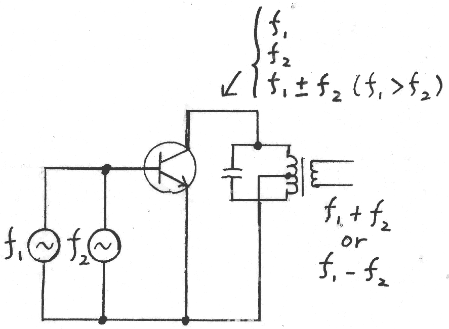 A frequency mixer circuit diagram (base injection-type).